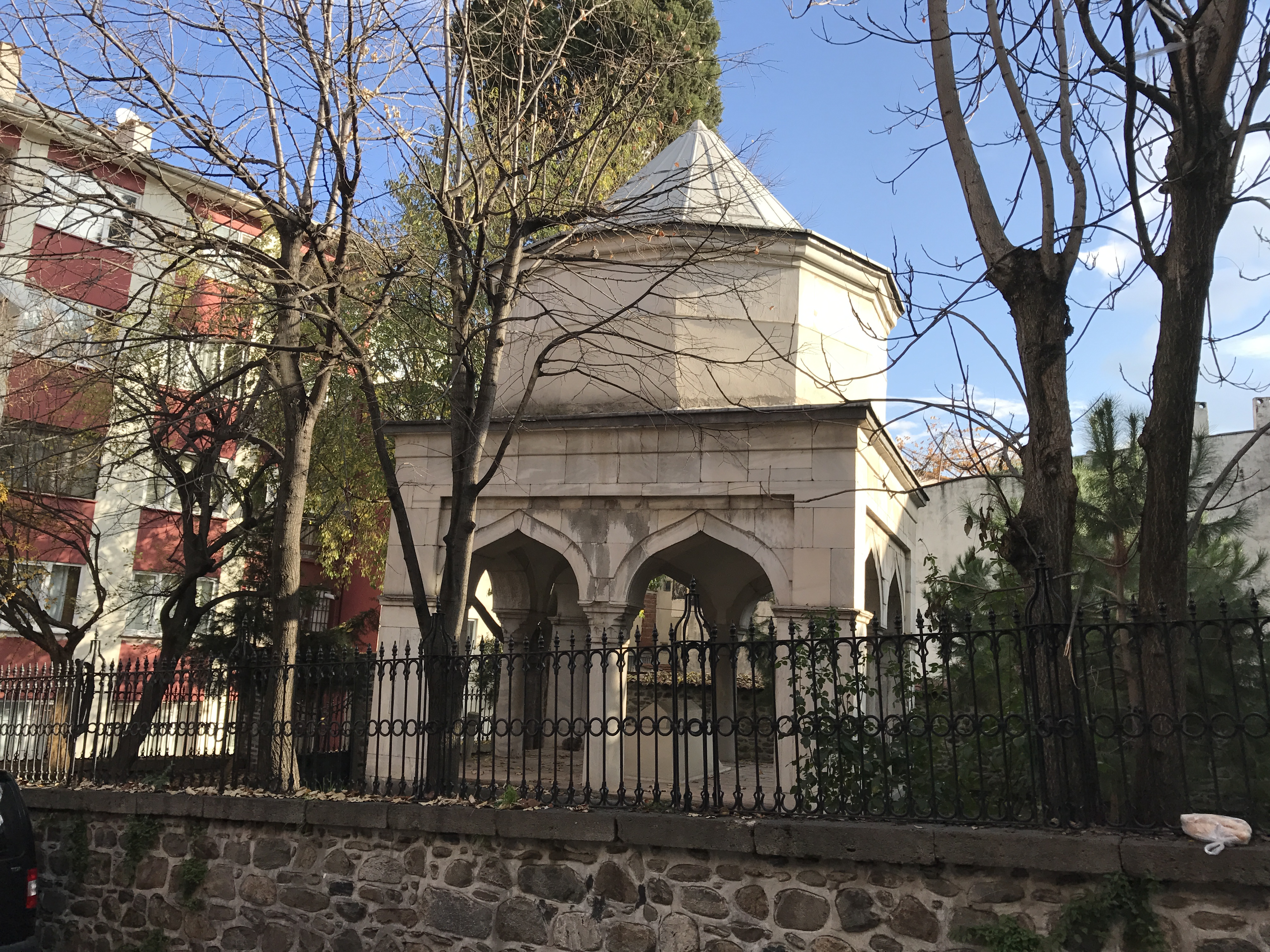 The tomb of Devlet Hatun: The tomb of Devlet Hatun stands alone in Bursa neighbourhoods separate from the mosque complexes that contained the tombs of the sultans and other members of the dynasty. The sign outside her tomb gives the following details: "It was built by Sultan Mehmed I. Devlet Hatun was the wife of Sultan Bayezid I and the mother of Sultan Mehmed I. She was the daughter of a Germiyanid prince. Her mother was the granddaughter of Mevlâna Celâleddini Rumi. Devlet Hatun died in 1412